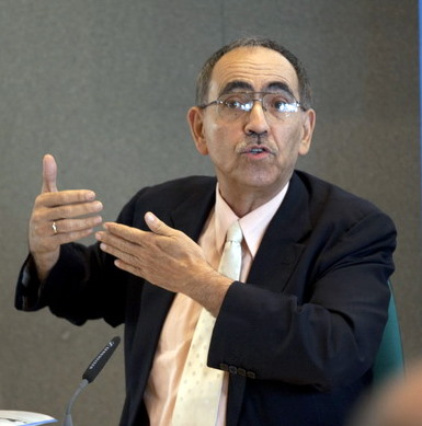 Ambassador Ruben Zamora, Ambassador of El Salvador to India. “Constitution-Making and Reform: Options for the process” was officially presented at the January 23rd Interpeace Partners Forum, held at and co-hosted by the U.S. Mission to the U.N. in Geneva. The day also marks the official handing over of the chair from the United States – represented by USAID-- to Sweden. U.S. Mission Photo by Eric Bridiers